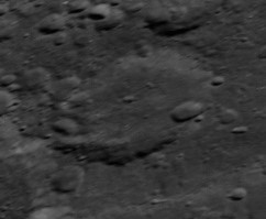 Oblique view of Espin, on the far side of the moon. Facing east (north is at left).